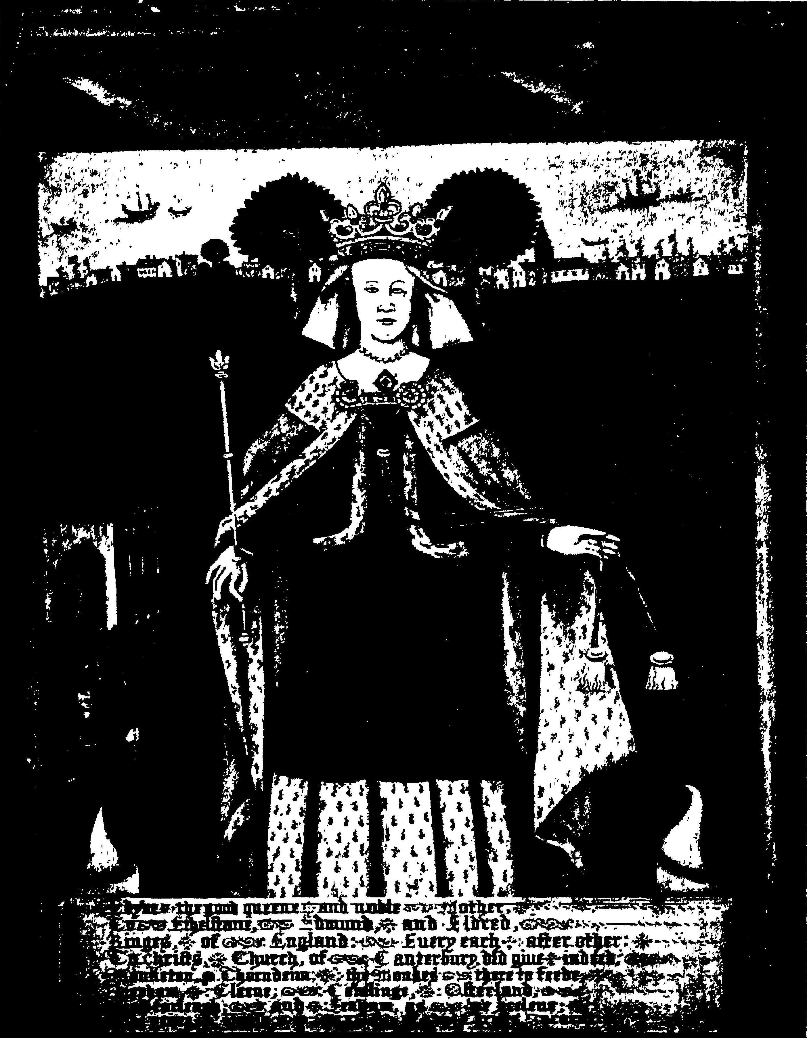 Picture of Queen Ediva from The Saxon Cathedral at Canterbury and The Saxon Saints Buried Therein opposite p.52